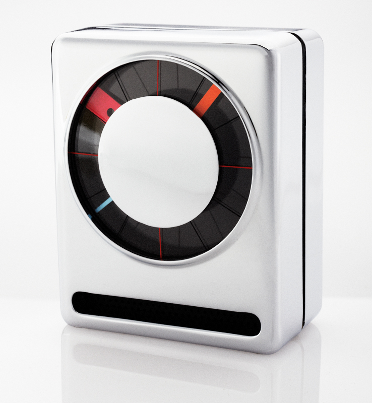 Richard Sapper Sanwich Clock. "This clock was named Sandwich because in order to stop the alarm one must press ("sandwich") the outer parts inward against each other." ([ Sandwich. 1971. Alarm clock. Ritz-Italora